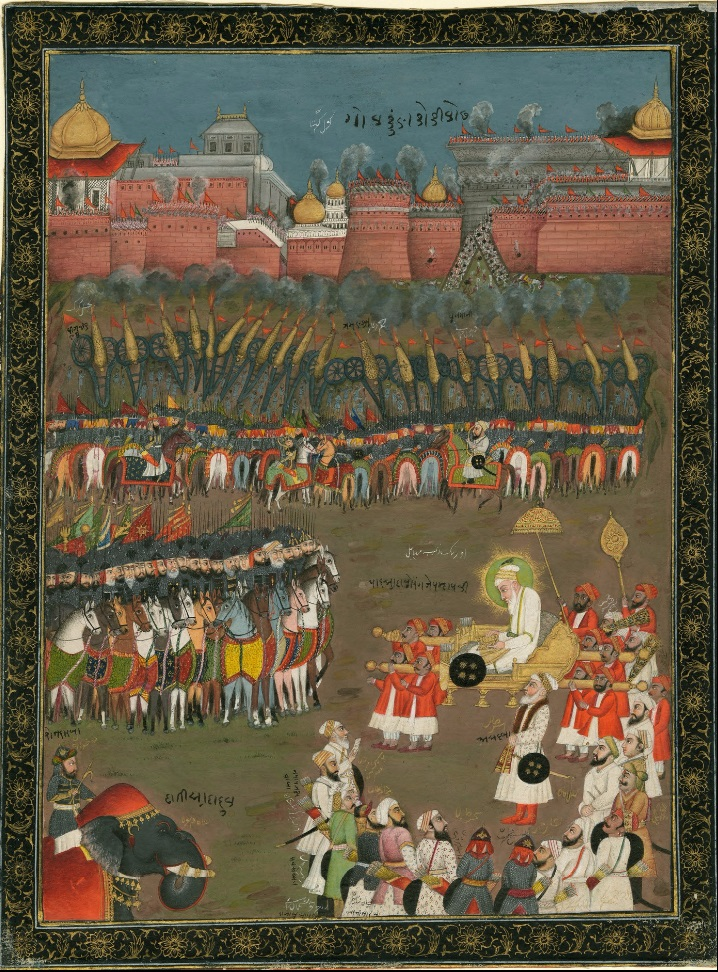 Emperor Aurangzeb on litter with attendants, supervising native cavalry and artillery attack on walled and fortified city Golconda (Hyderabad, India) in background in 1687.